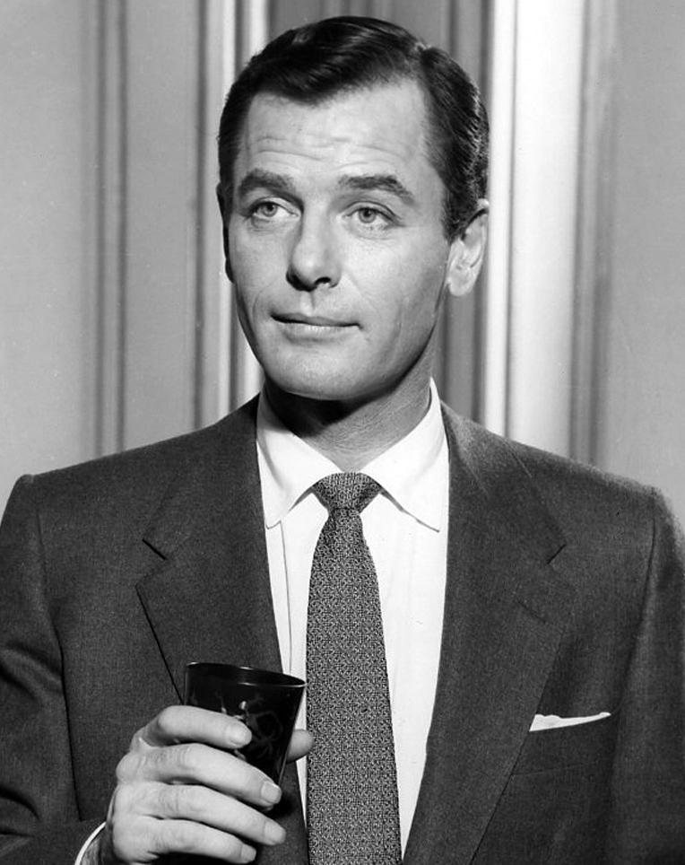 Publicity photo of Gig Young for Oh, Men! Oh, Women!